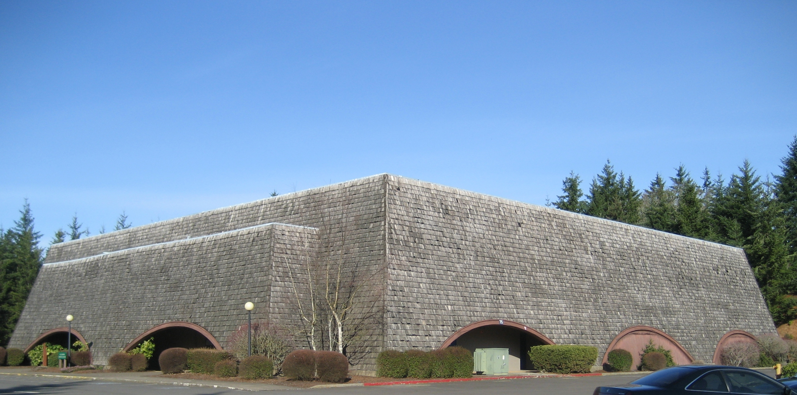 Gym at Corban College in Salem, Oregon, USA